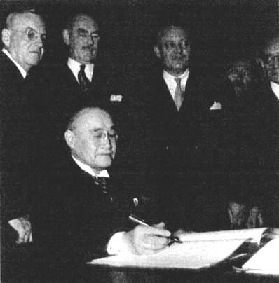 Japanese Prime Minister Shigeru Yoshida (1878–1967, in office 1946–57 and 48–54) signs the US-Japan Security Treaty at the San Francisco Presidio.